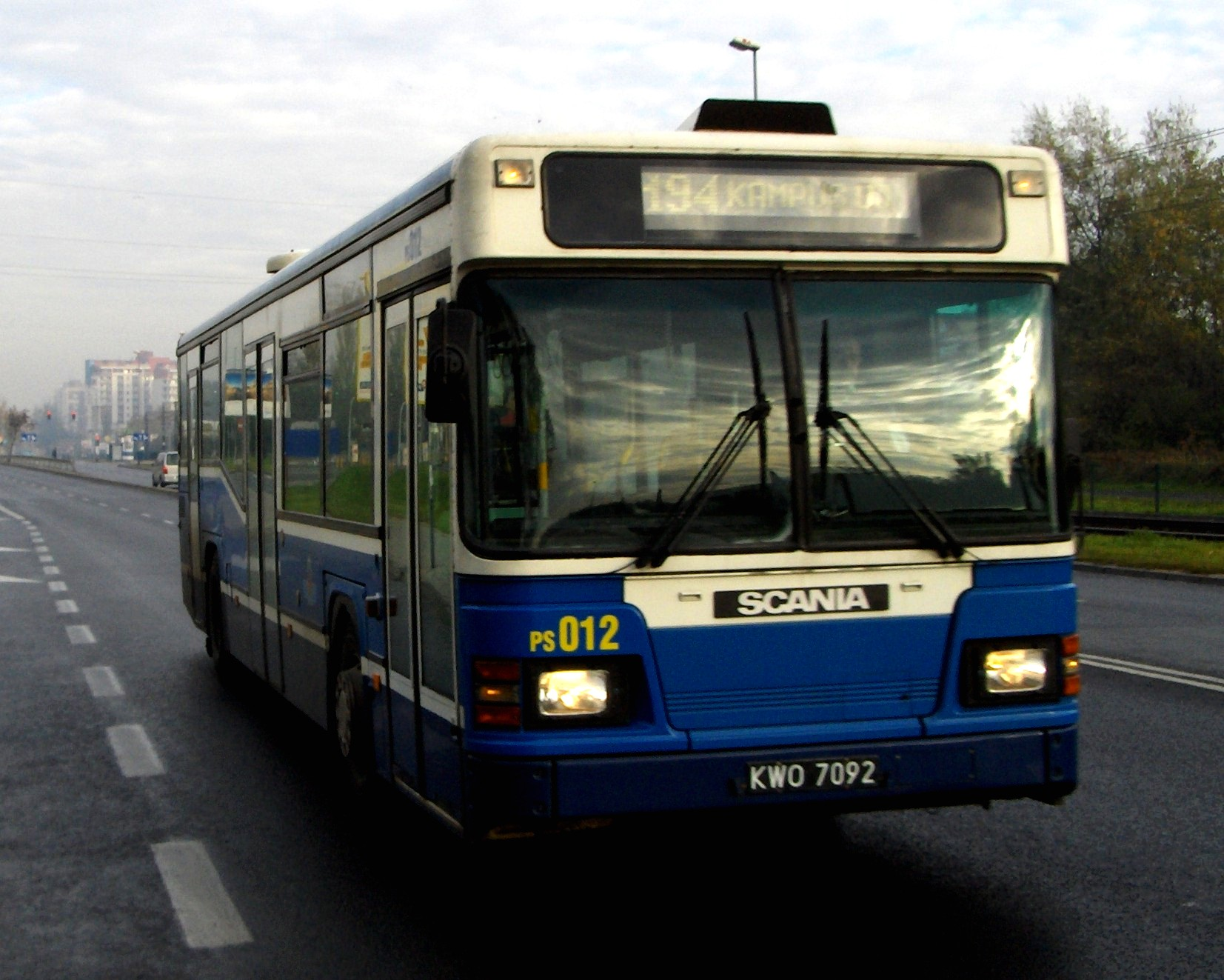 Scania CN113CLL bus (#PS012) in Kraków, Poland. Built 1995, MPK Kraków operator.